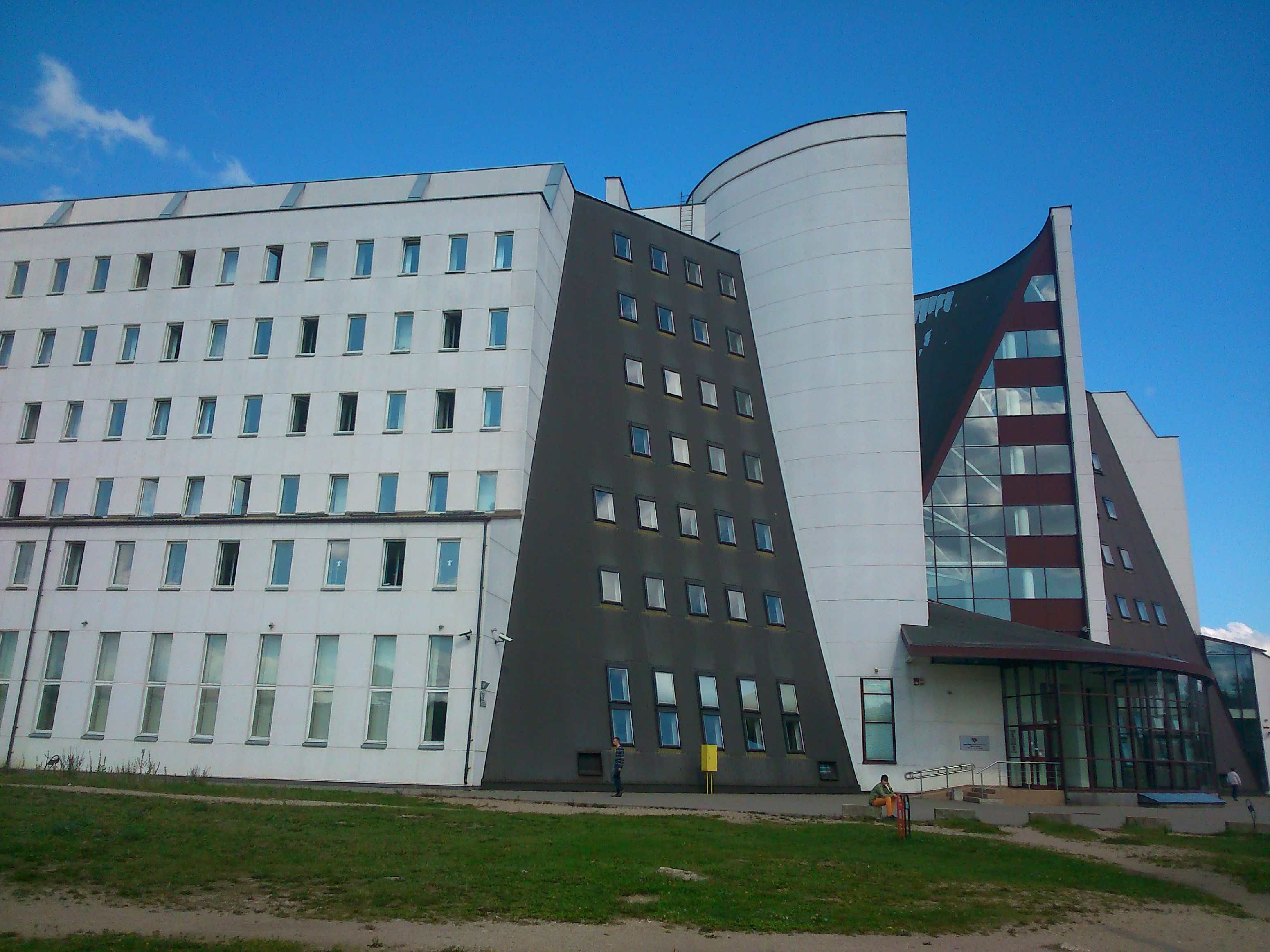 SoDra Vilnius